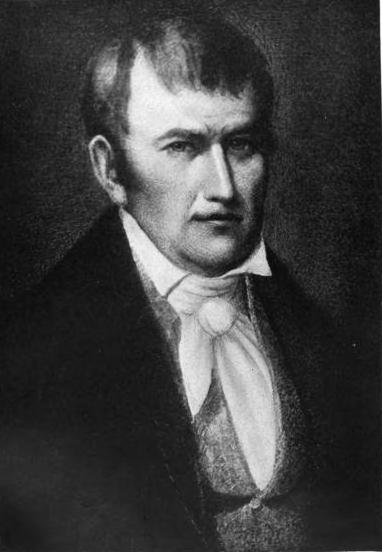 Tennessee explorer and Nashville cofounder James Robertson (1742–1814), as depicted by painter Washington B. Cooper (1801–1889).